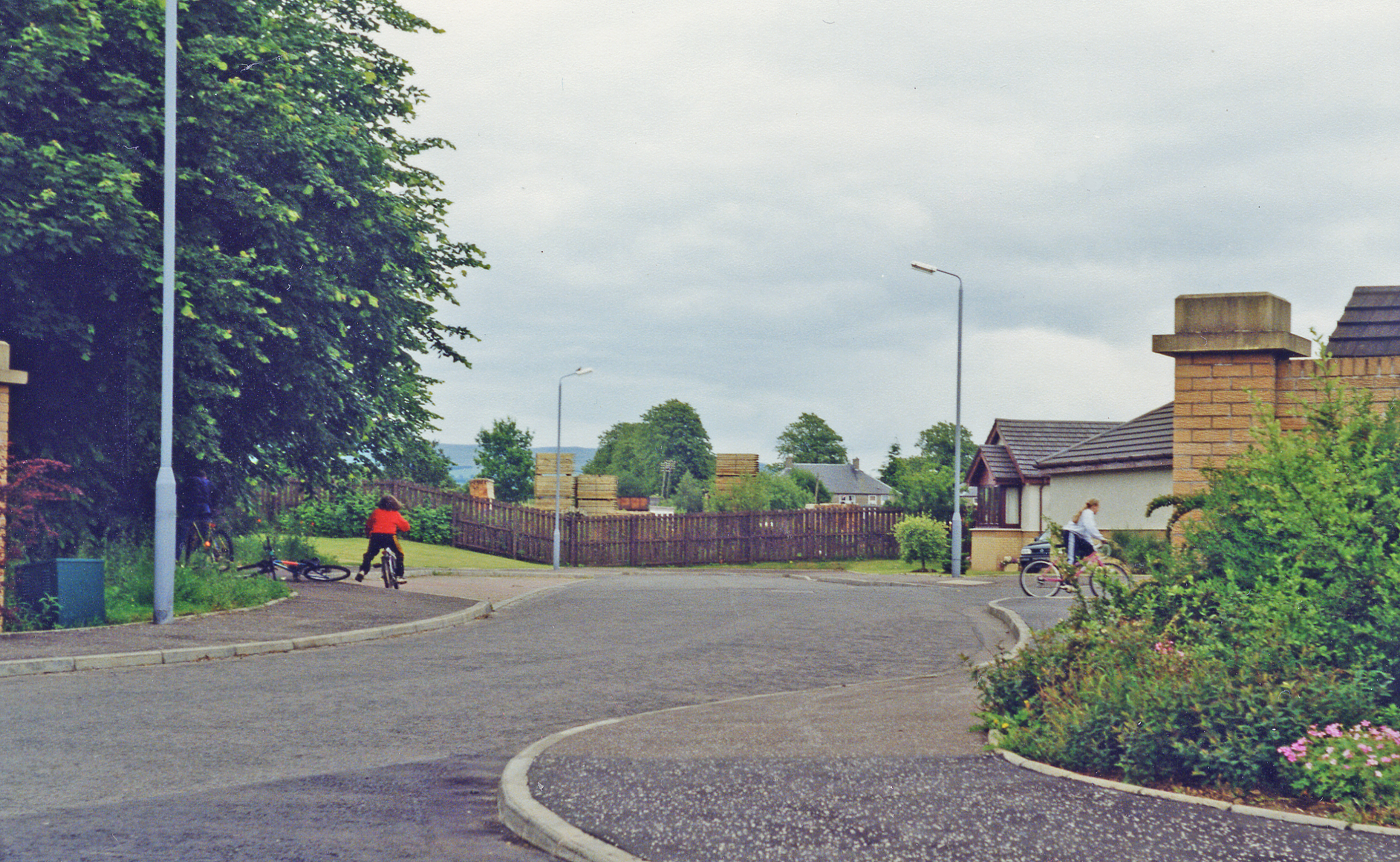 Site of Doune station, 1997. A totally uninteresting view eastward west of the village: Doune station had been on the Dunblane - Callander - Crianlarich section of the ex-Caledonian Glasgow - Stirling stOban main line which was closed Dunblane - Crianlarich from 1/11/65.